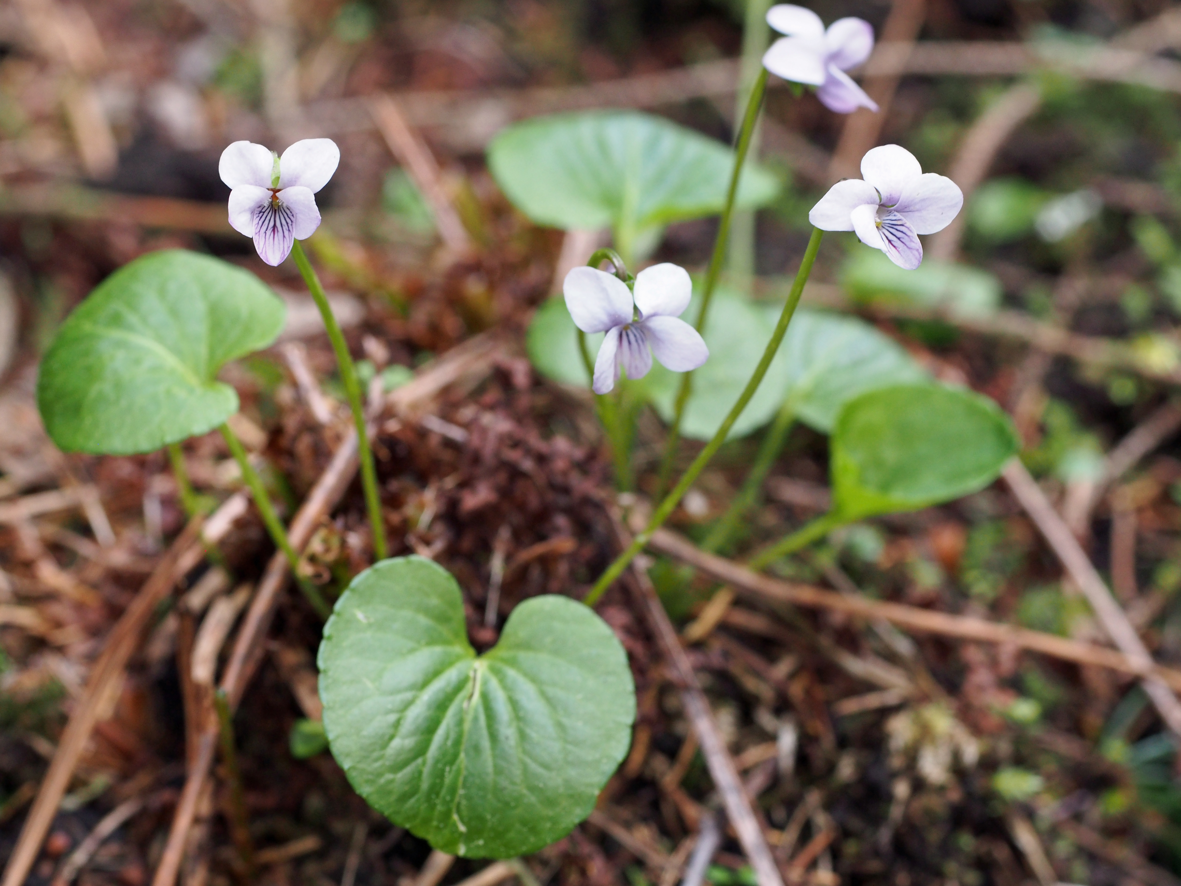 Marsh Violet (Viola palustris) in Lower Saxony, Germany